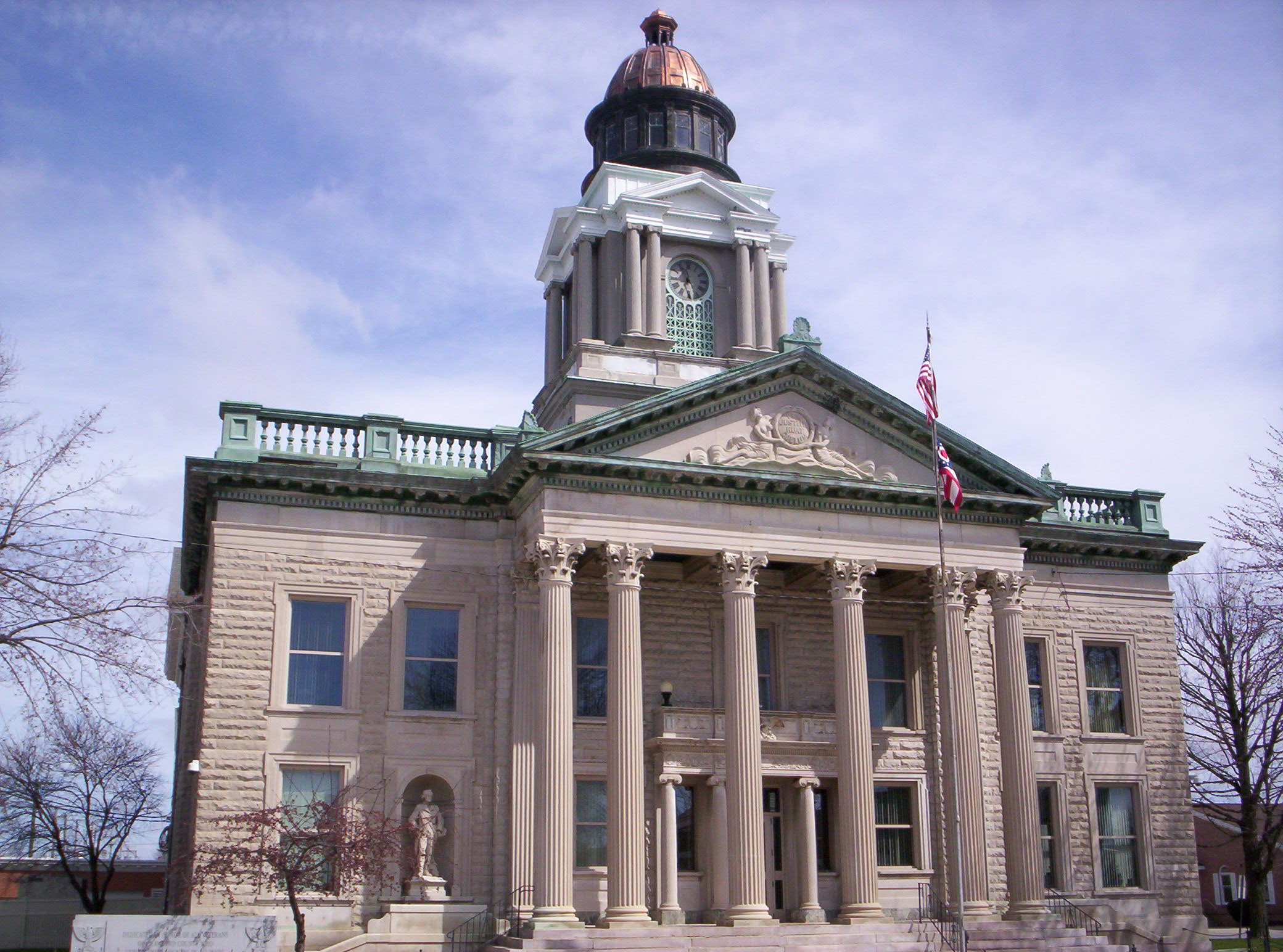 A view of the Crawford County Courthouse in downtown Bucyrus, Ohio, USA.